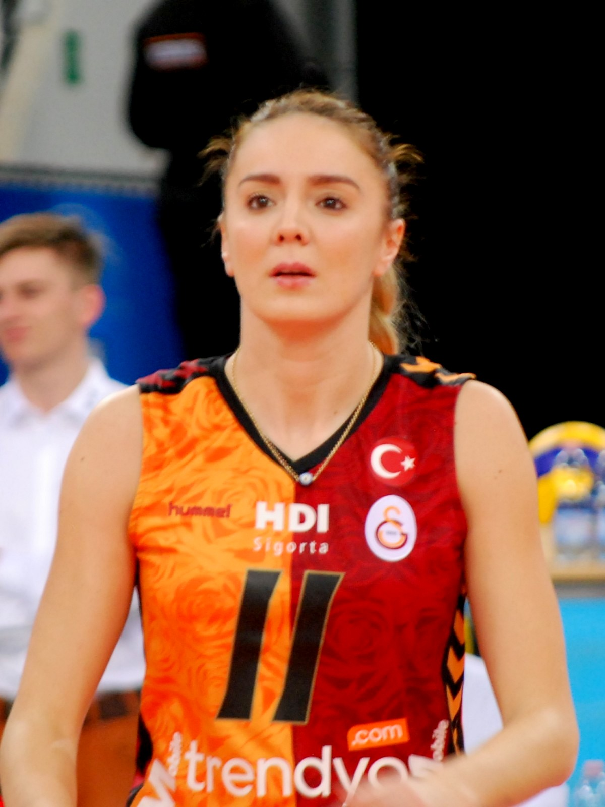 Gamze Alikaya, volleyball player from Turkey